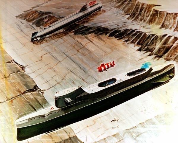 Sourced from: Details: ID: DNSC8704345 Service Depicted: Navy An artist's concept of a Soviet India class rescue submarine deploying a deep submergence rescue vehicle (DSRV), foreground, and a Soviet November class fleet submarine being assisted by a DSRV while stranded on an underwater shelf. Date Shot: 10 Mar 1987